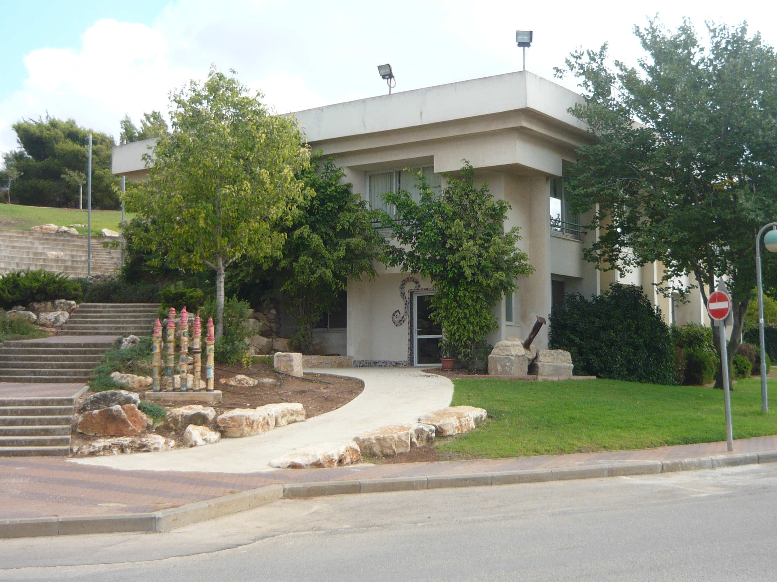 Atzmon מועדון החברים בעצמון